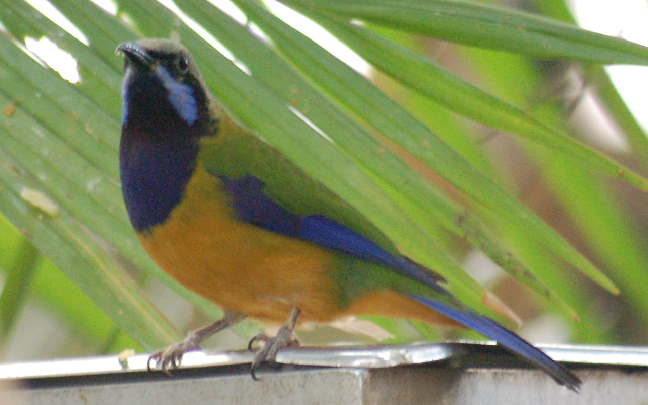 A photograph of an Orange-Bellied Leafbirden (Chloropsis hardwickii en ). Photo taken at the National Aviary.